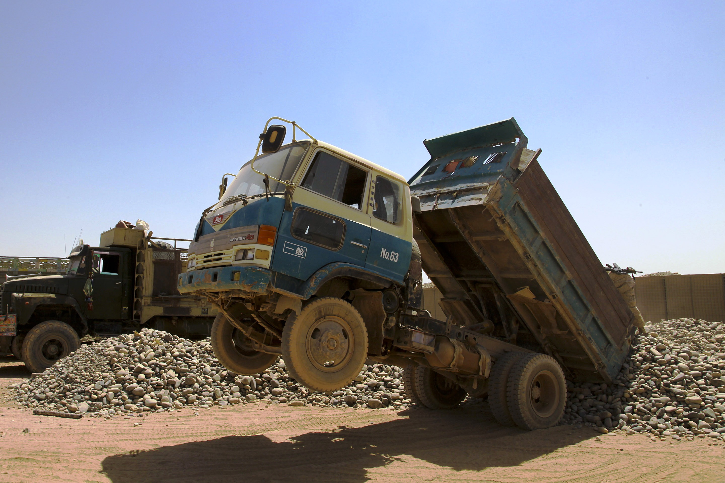 An Afghan contractor dumps gravel with a HINO Ranger 4D dump truck at U.S. Marine Corps Forward Operating Base (FOB) Geronimo, Nawa district, Helmand province, Afghanistan, Sept. 13, 2009. The gravel is being used in the construction of FOB Geronimo.